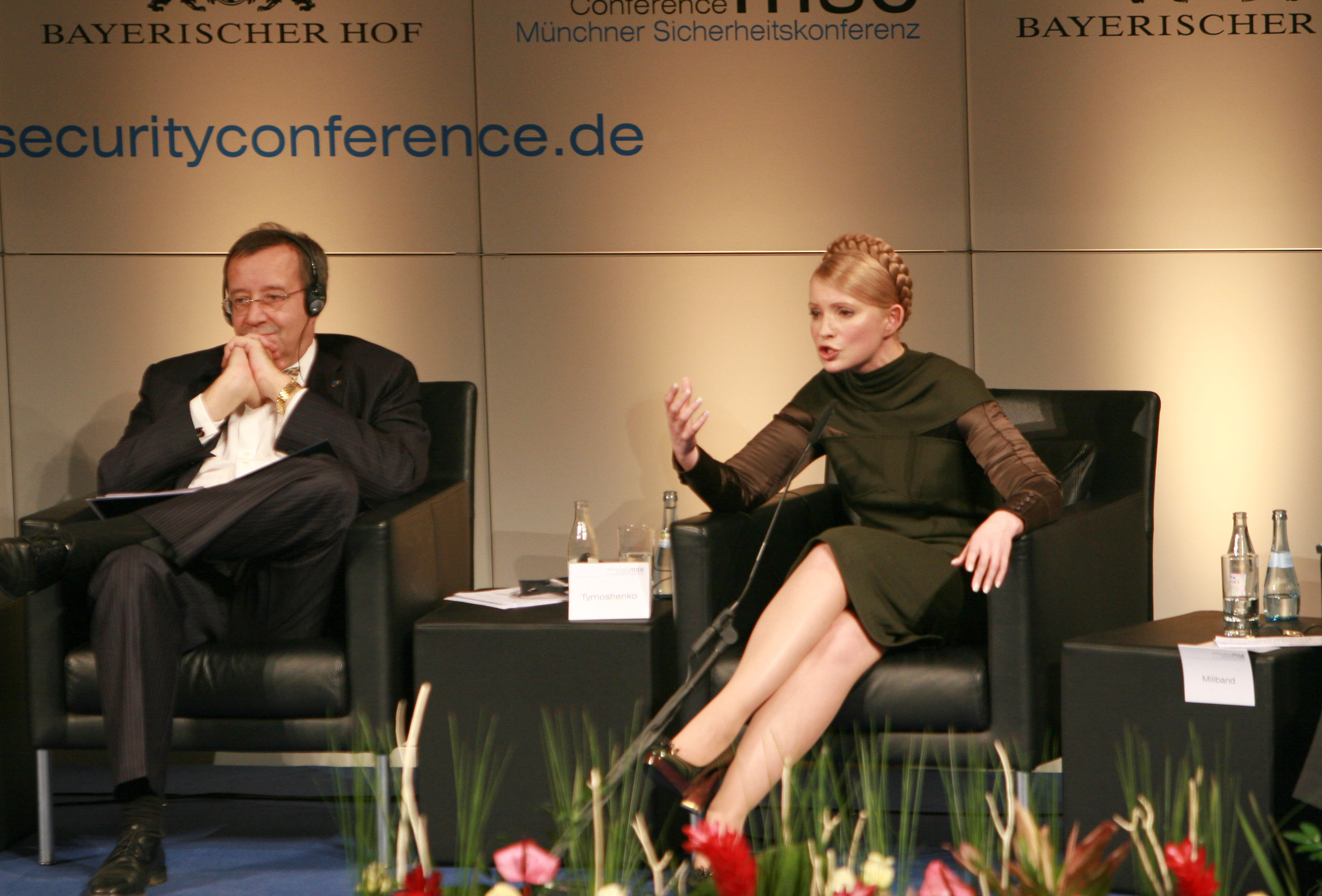 45th Munich Security Conference 2009: In the diskussion: Yulia V. Tymoschenko (ri), Prime Minister of the Ukraine, and Thomas Hendrik Ilves, President of the Republic of Estonia.